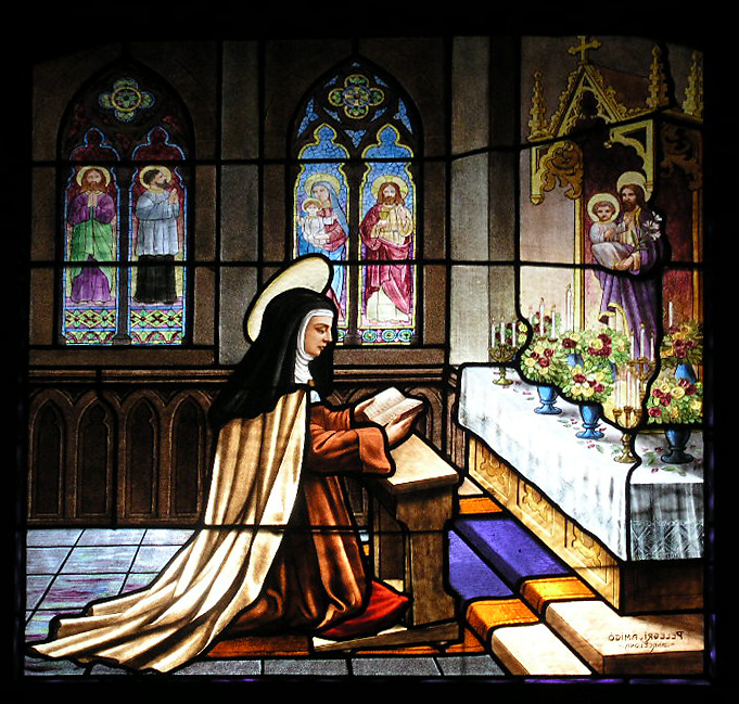 Saint Theresa, church window, Convento de Sta Teresa, Ávila de los Caballeros, Spain